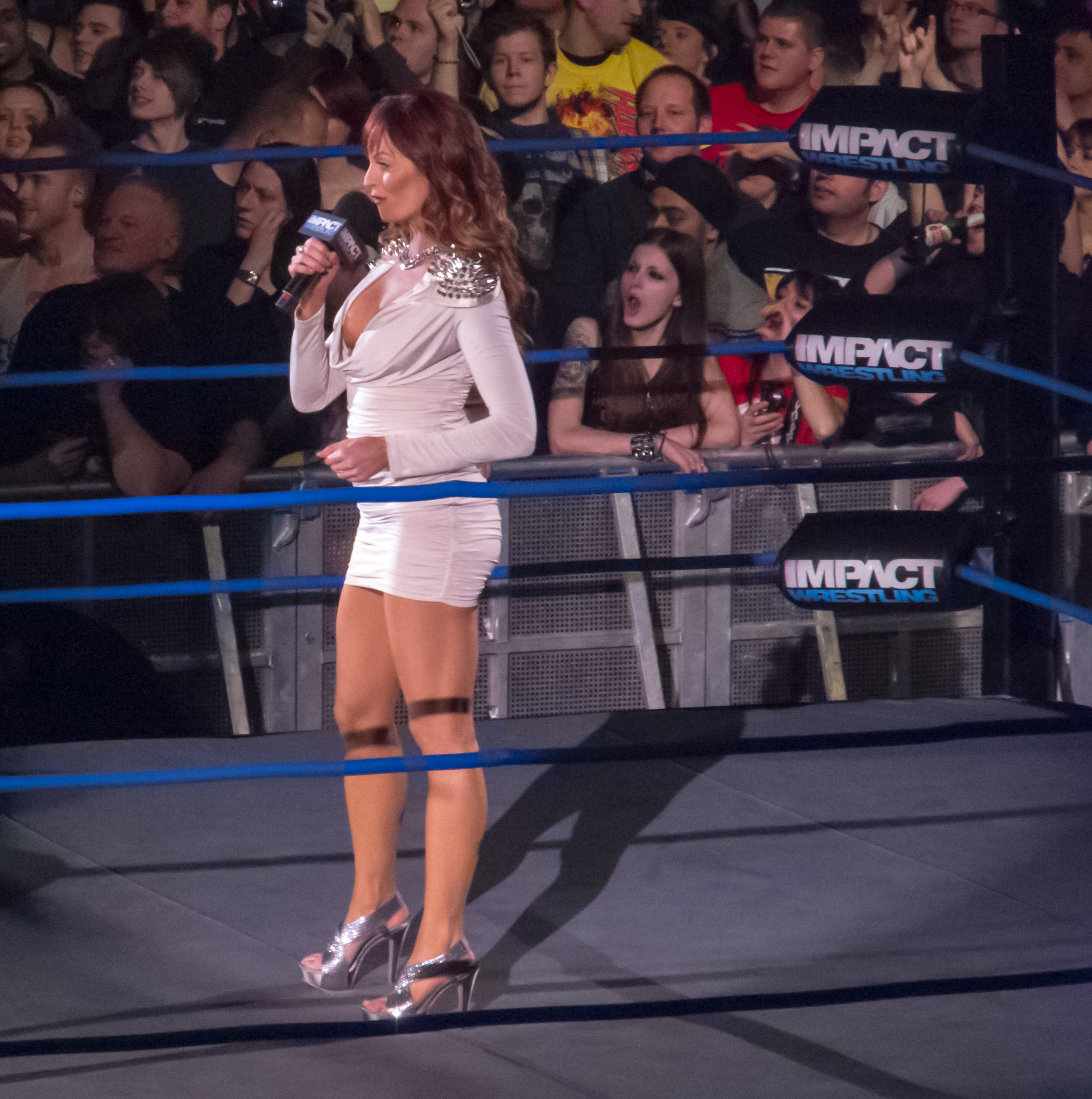 Christy Hemme at the Impact! TV Tapings in Wembley, England on January 26, 2013.